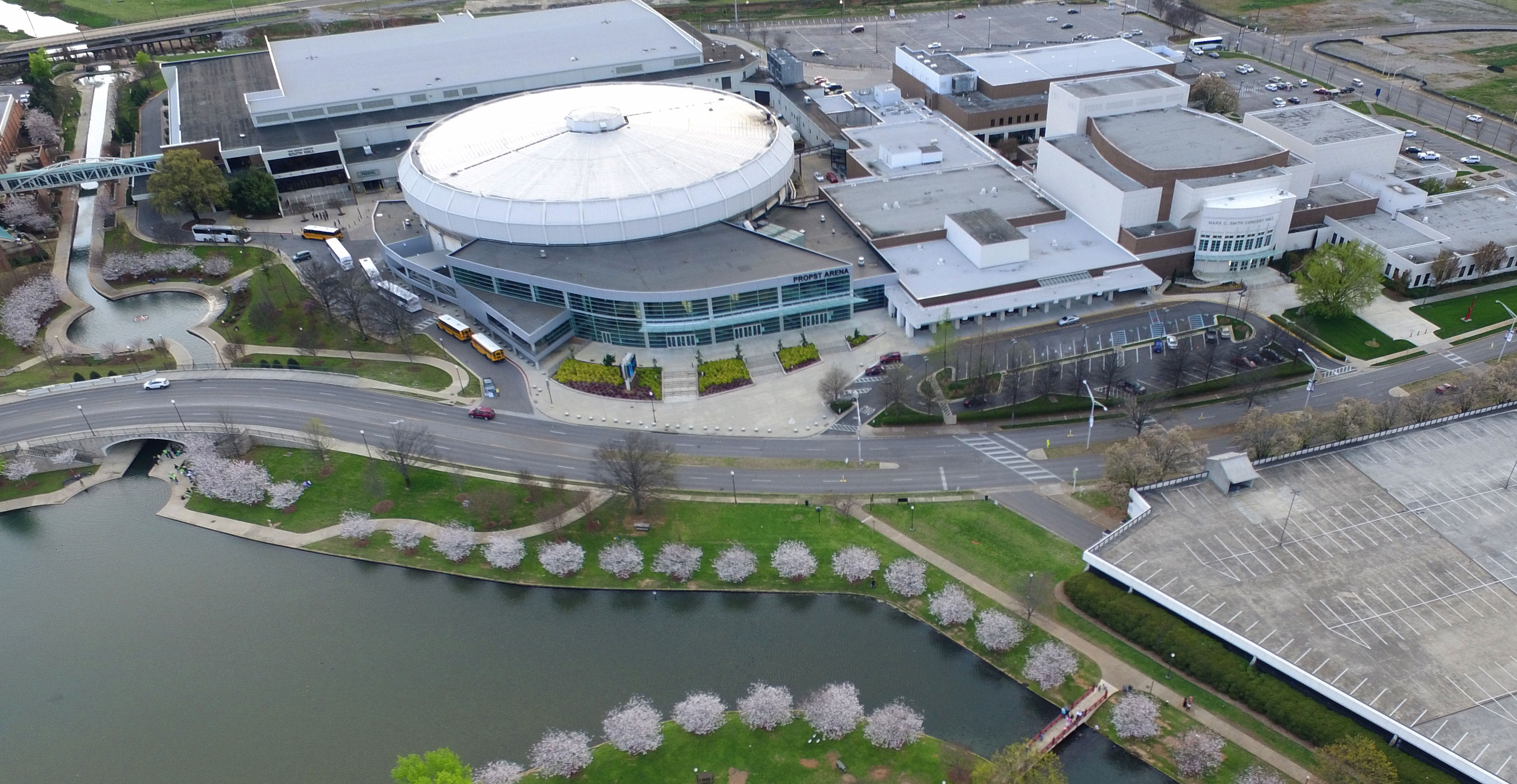 An aerial view of the Von Braun Center in Huntsville, Alabama, surrounded by Big Spring Park.